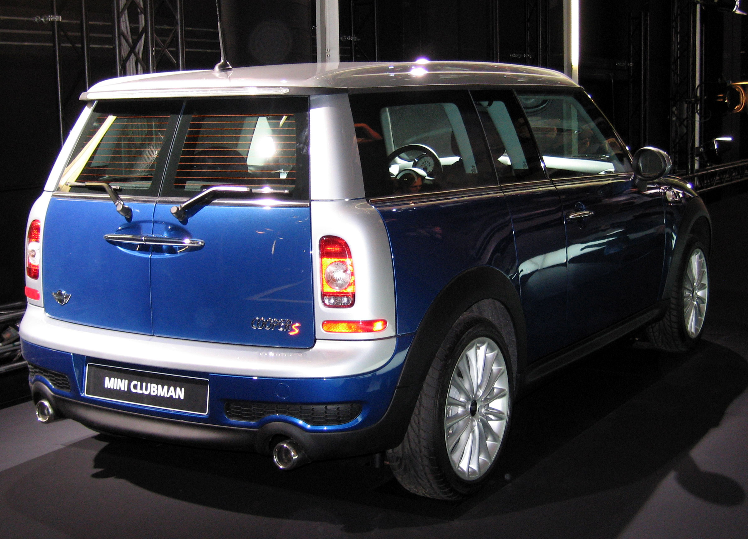 Mini Cooper S Clubman at the IAA 2007